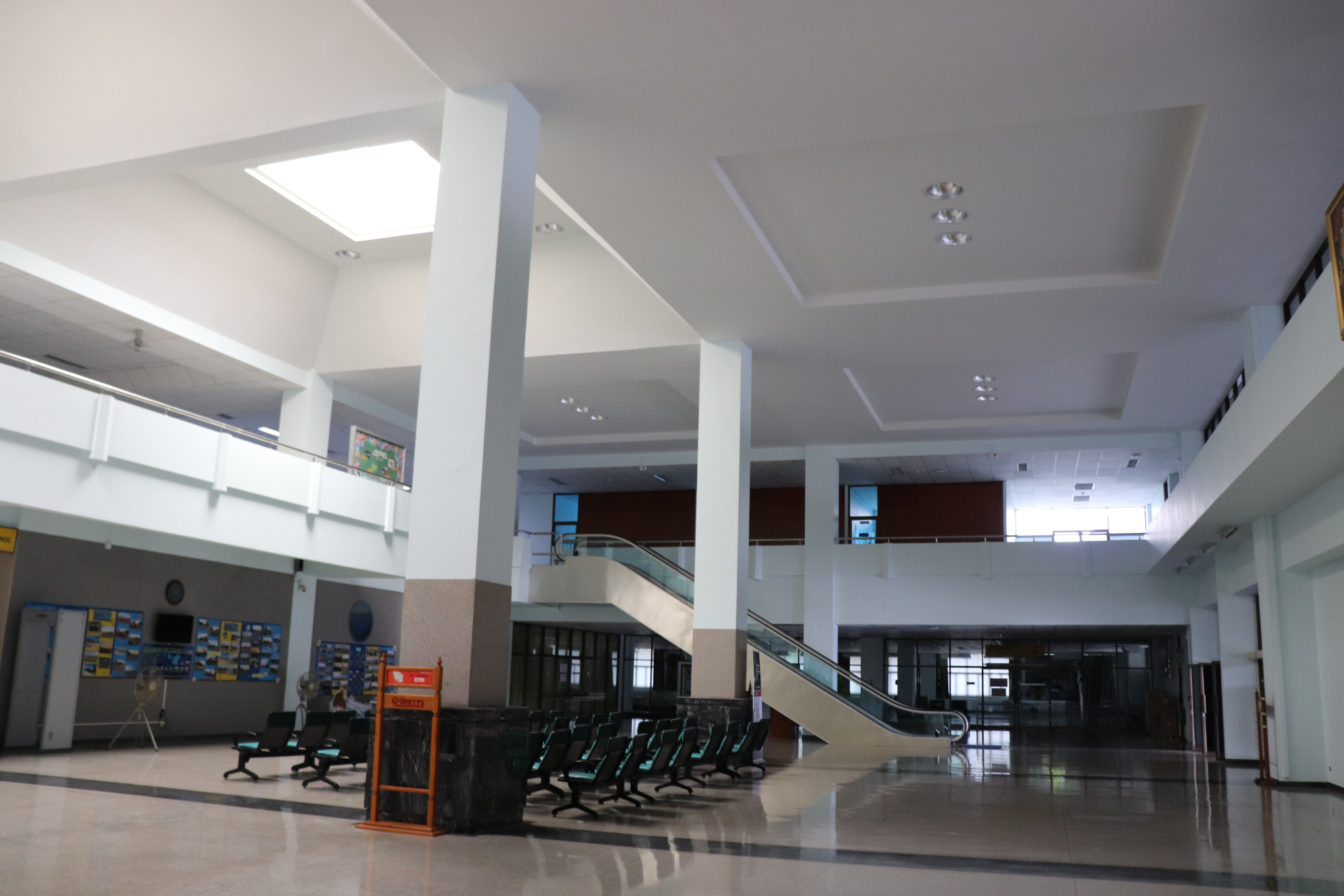 Nakhon Ratchasima Airport Interior